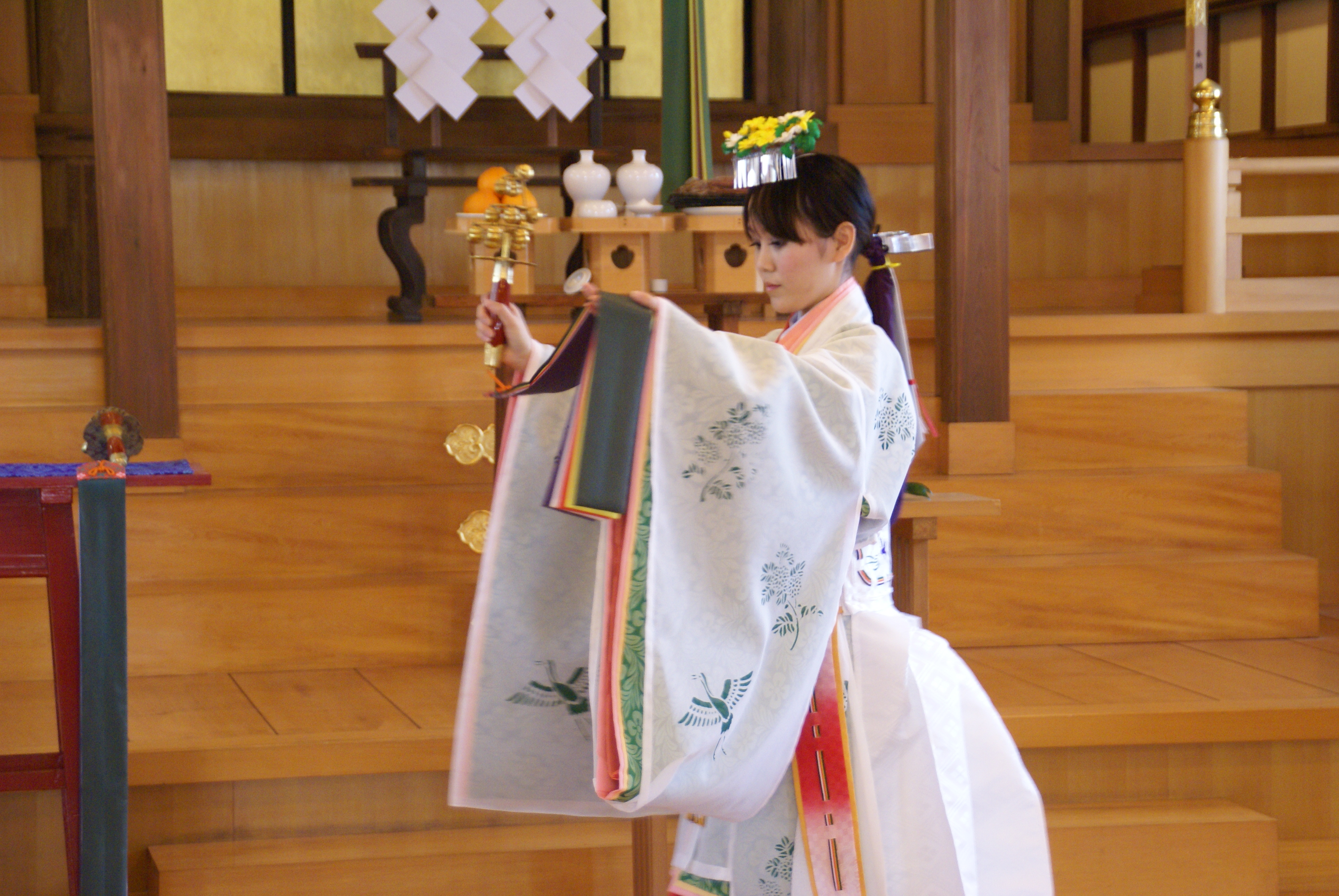 Urayasu no mai